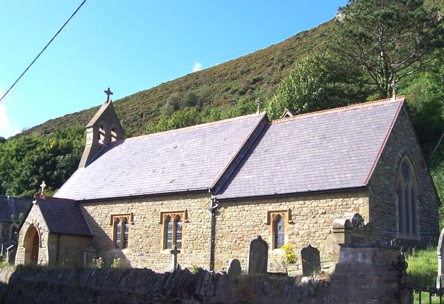 St Carannog's parish church, Llangrannog, Ceredigion, Wales